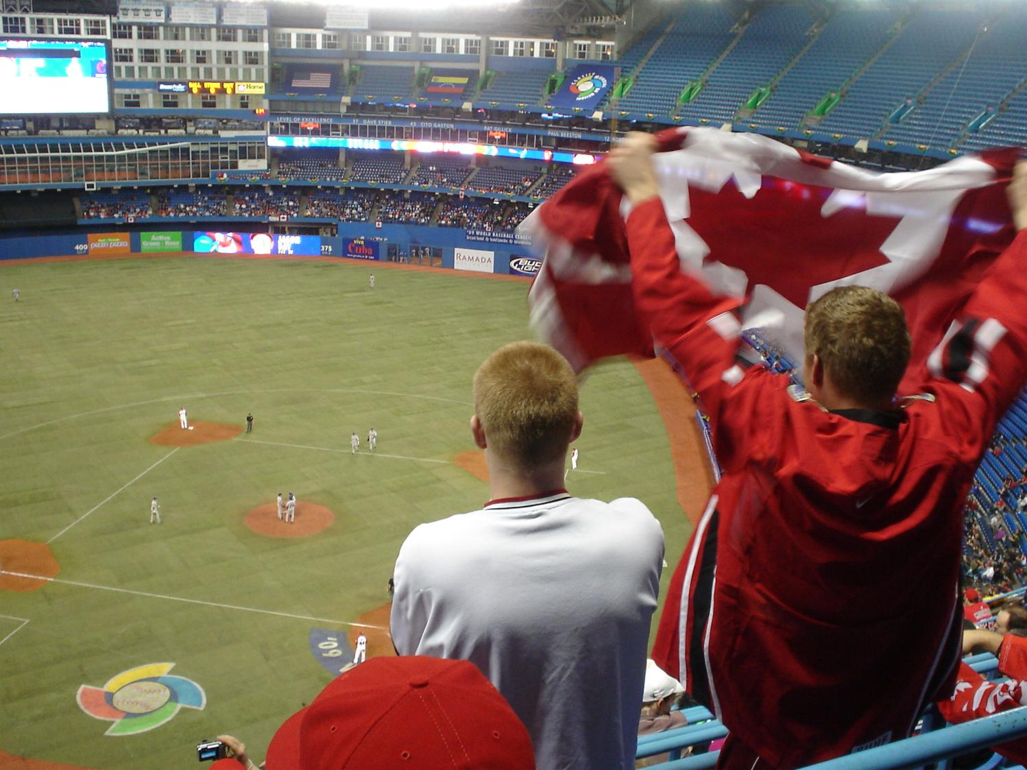 Canadian fans cheer as Canada plays Italy at the 2009 World Baseball Classic in Toronto